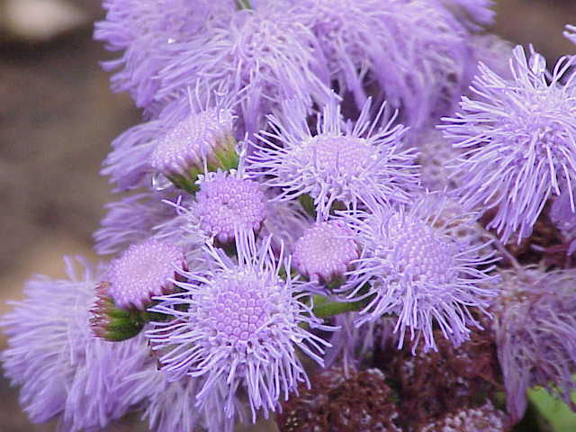 Species: Ageratum houstoanianum Family: Compositae Image No. 1